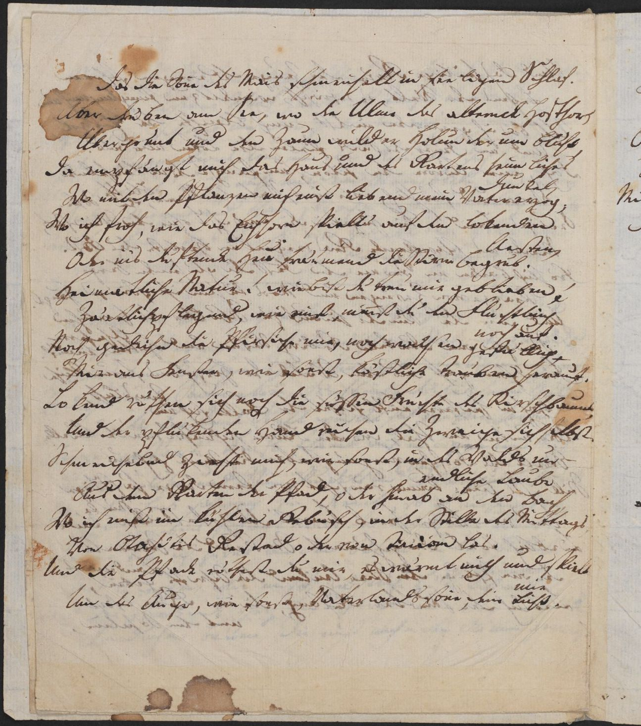 Manuscript by Friedrich Hölderlin "Der Wanderer", page 5